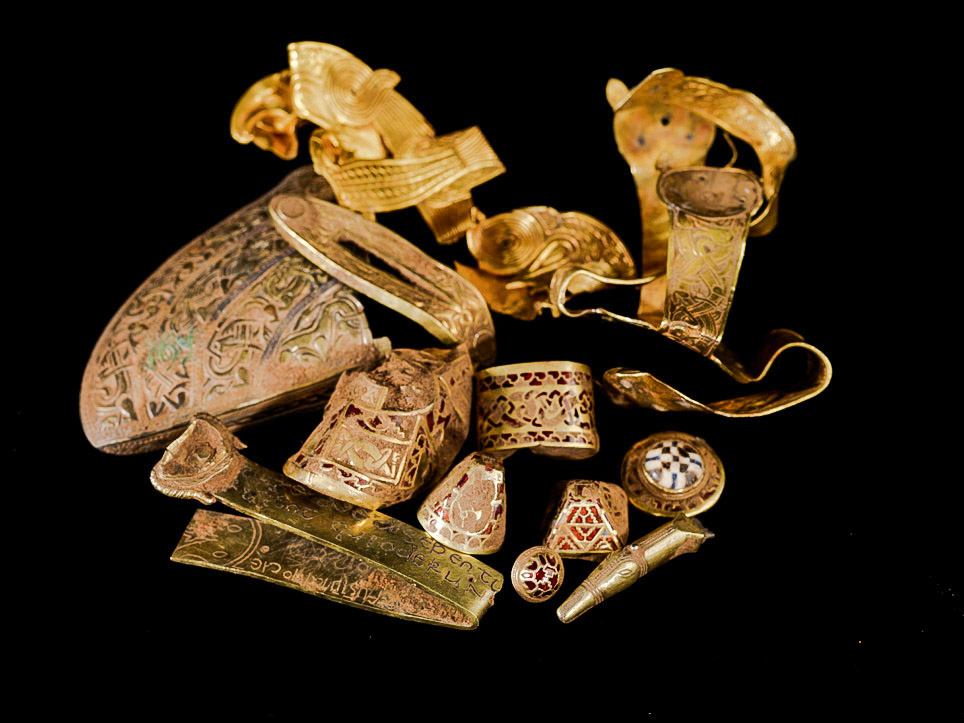 Pieces from the Staffordshire hoard, an Anglo-Saxon treasure trove discovered in 2009. From top left to bottom right the items are: Part of helmet cheek piece (left) "Fish and Eagles" (above and right of cheek piece) NLM 567: sword fitting or dagger hilt (right of cheek piece) NLM 655: folded cross (top right) mount with entwined pattern within rectangle (above strip) NLM 449: hilt piece with inlaid intertwining pattern (middle) NLM 451: pyramid-shaped mount or sword fixing (below 449, above strip) NLM 462: pyramid-shaped mount or sword fixing NLM 545: stud with chequerboard pattern NLM 550: folded band with Latin inscription (lower left) NLM 675: small round stud horse-patterned rod (lower right) At the lower left the folded gold band, NLM 550, is inscribed with the Latin inscription surge d[omi]ne [et] dispentur inimici tui et fugent qui oderunt te a facie tua which could be translated as "rise up, o Lord, and may thy enemies be scattered and those who hate thee be driven from thy face"[1]